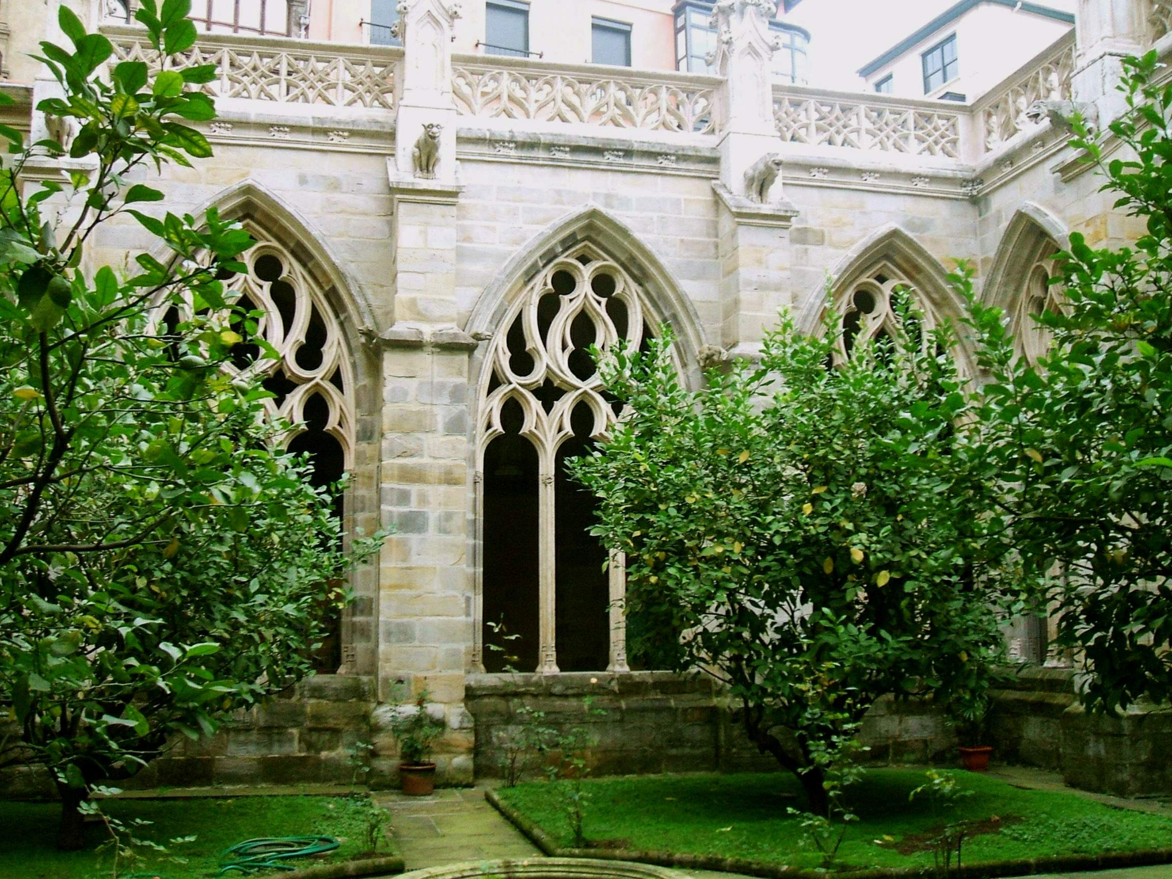 Claustro de la Catedral de Santiago de Bilbao, País Vasco, España